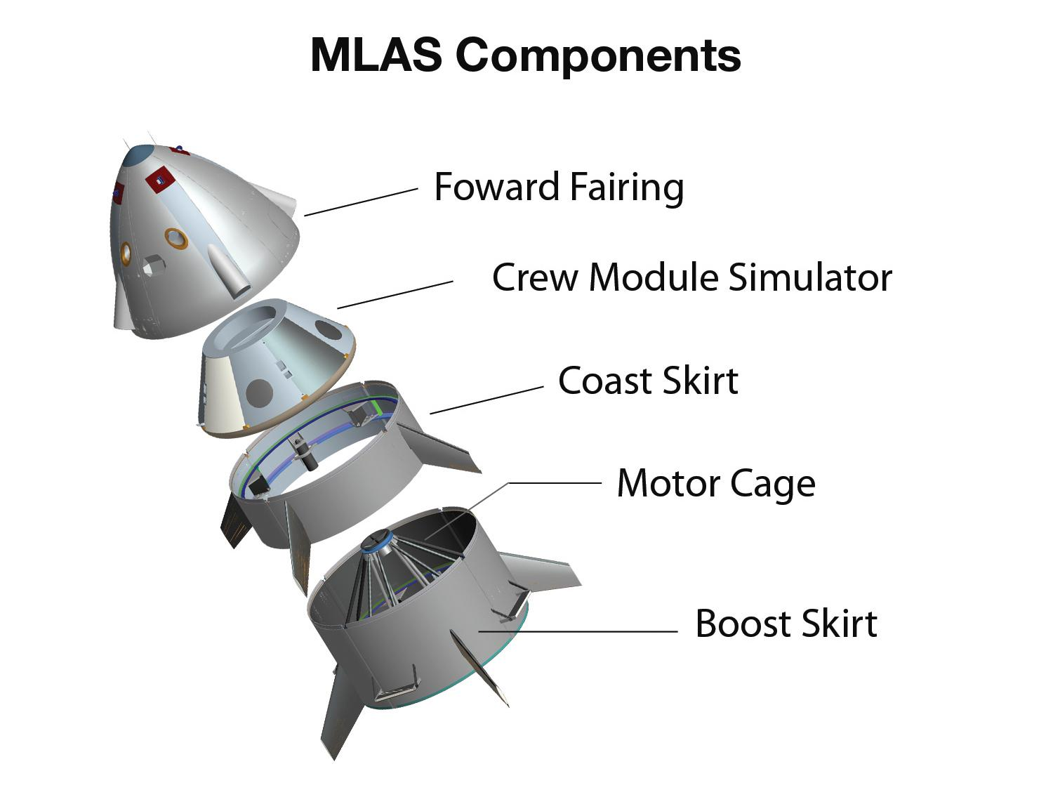 Diagram of Max Launch Abort System test vehicle components